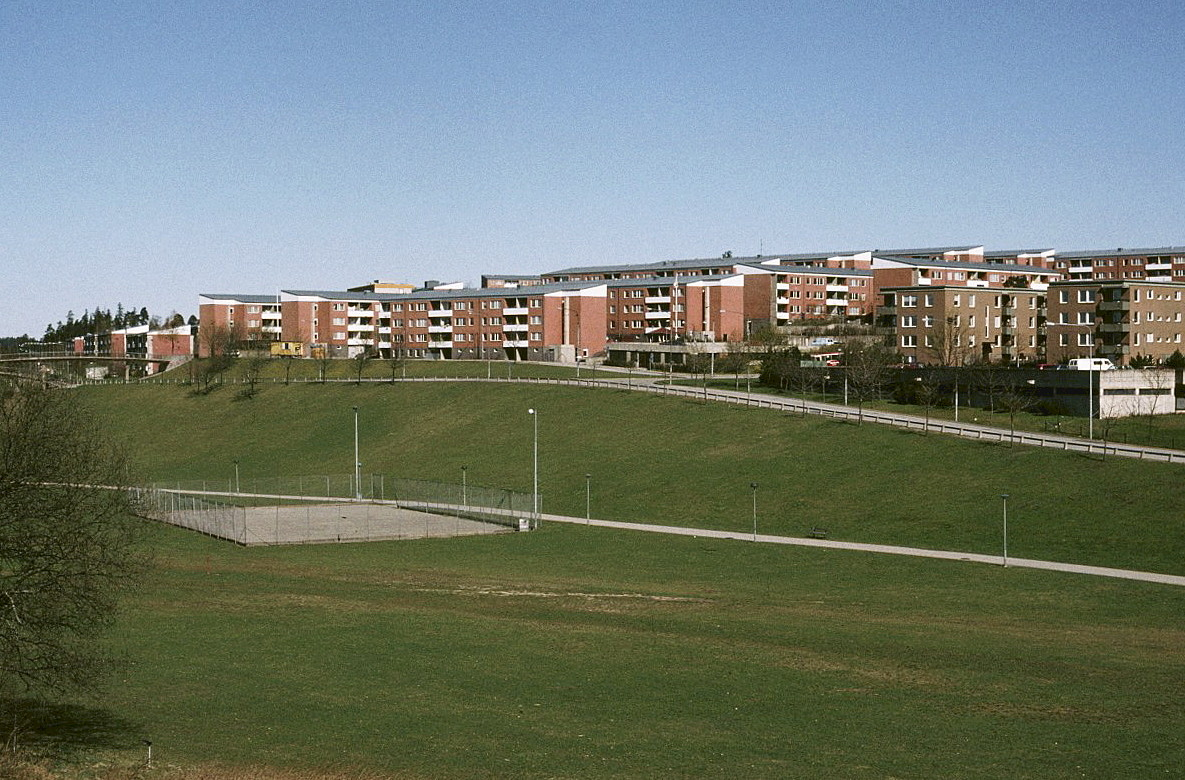 FOTOGRAFI: Flerbostadsbebyggelse kring Hjulstastråket sett söderifrån från Tensta hage. 1991-1992 FOTOGRAF: Johansson, Ingrid.BILDNUMMER: Dia 5523Stadsmuseet i Stockholm